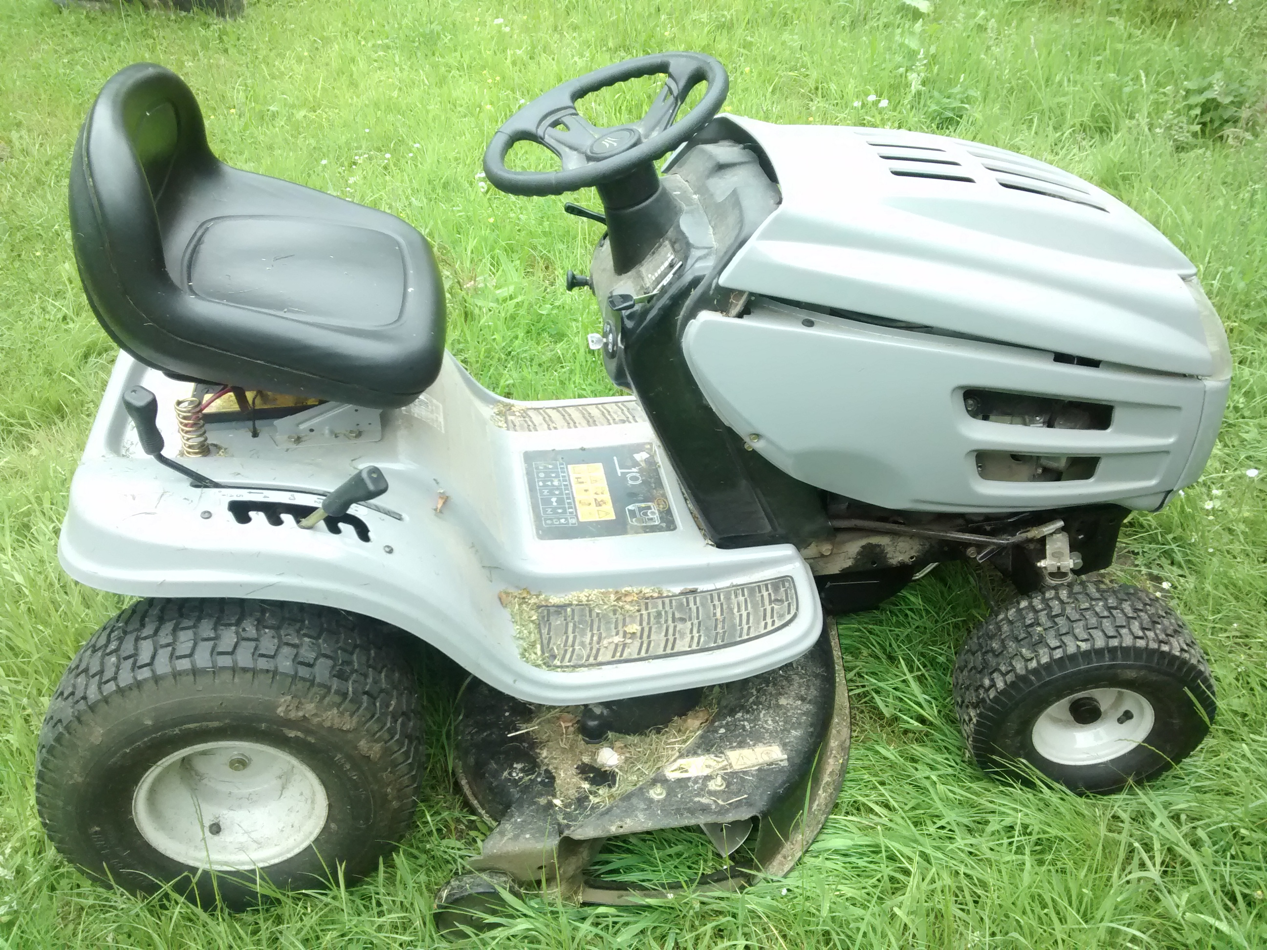 Herkunft: "Saarbrücken".